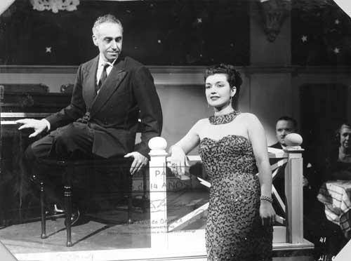 Carlos Ginés y Elsa Miranda - actores